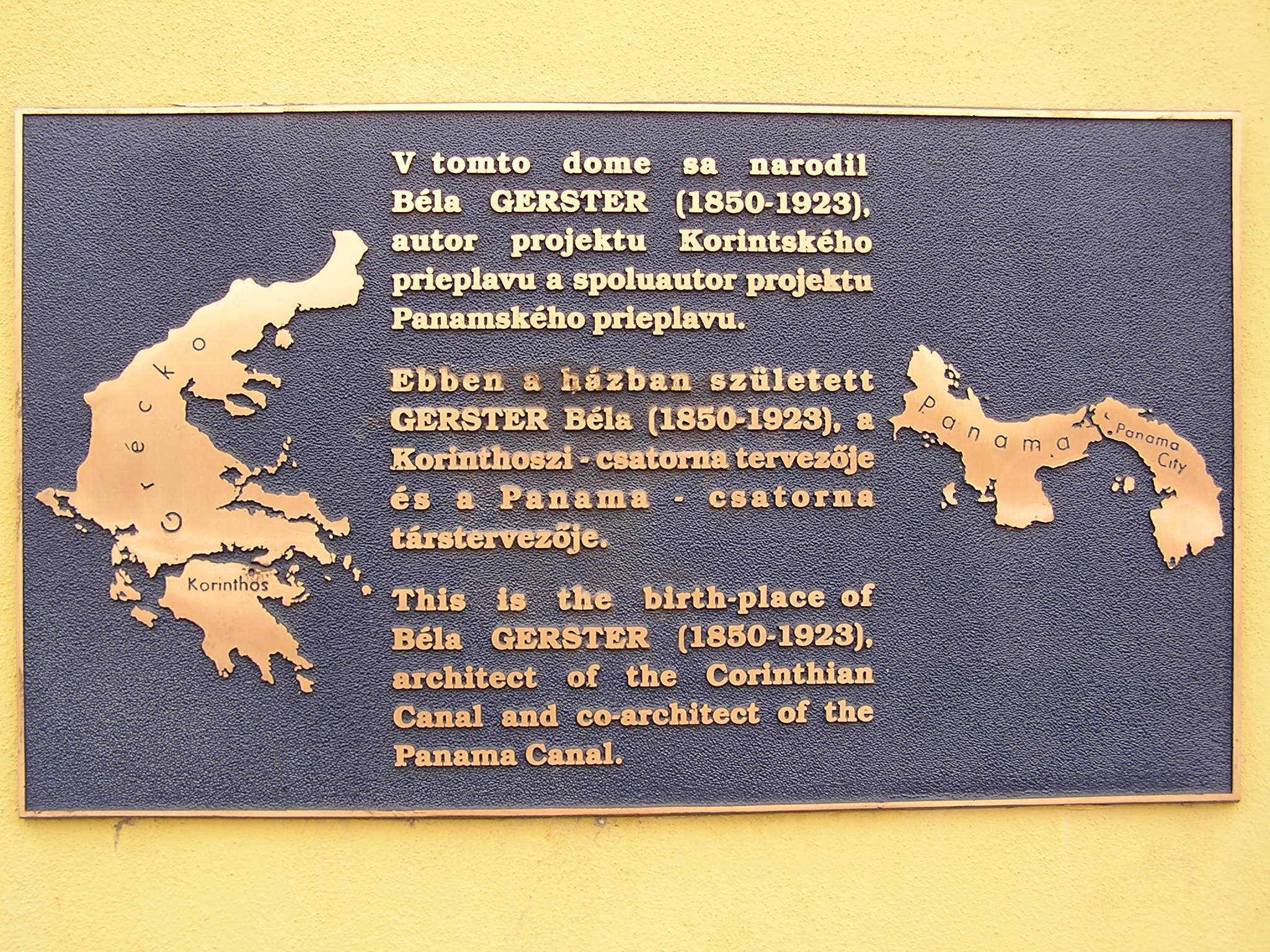 Author: Marian Gladis